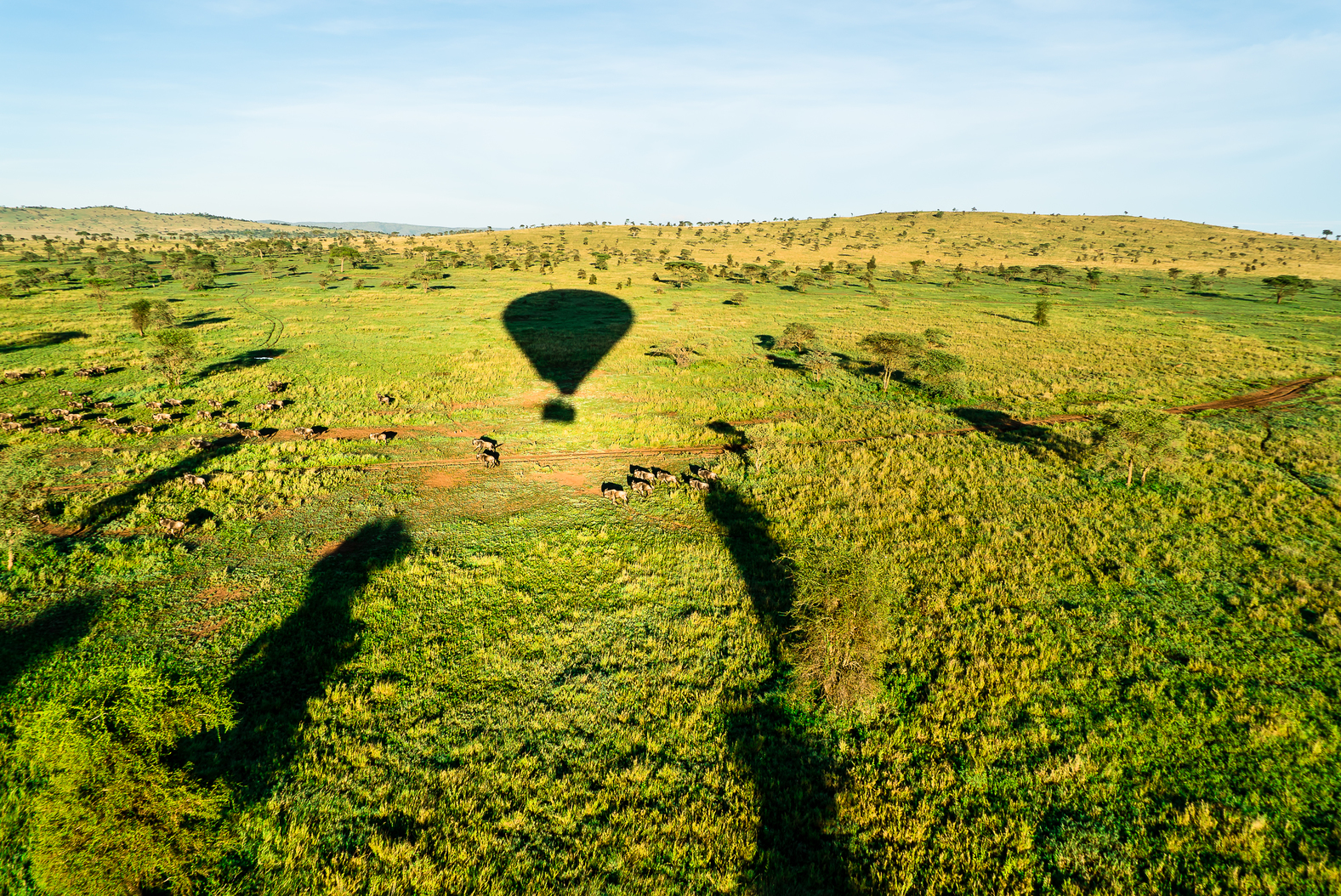 Wilde beast migration seen from a heart shape balloon ... This is an image with the theme "Africa on the Move or Transport" from: Tanzania